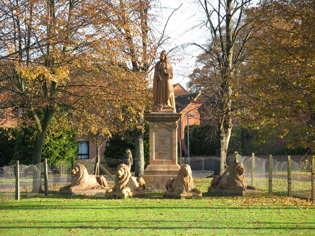 The lions were moved to this location from their original position a few years back. Photograph taken on my walk to work through the park.